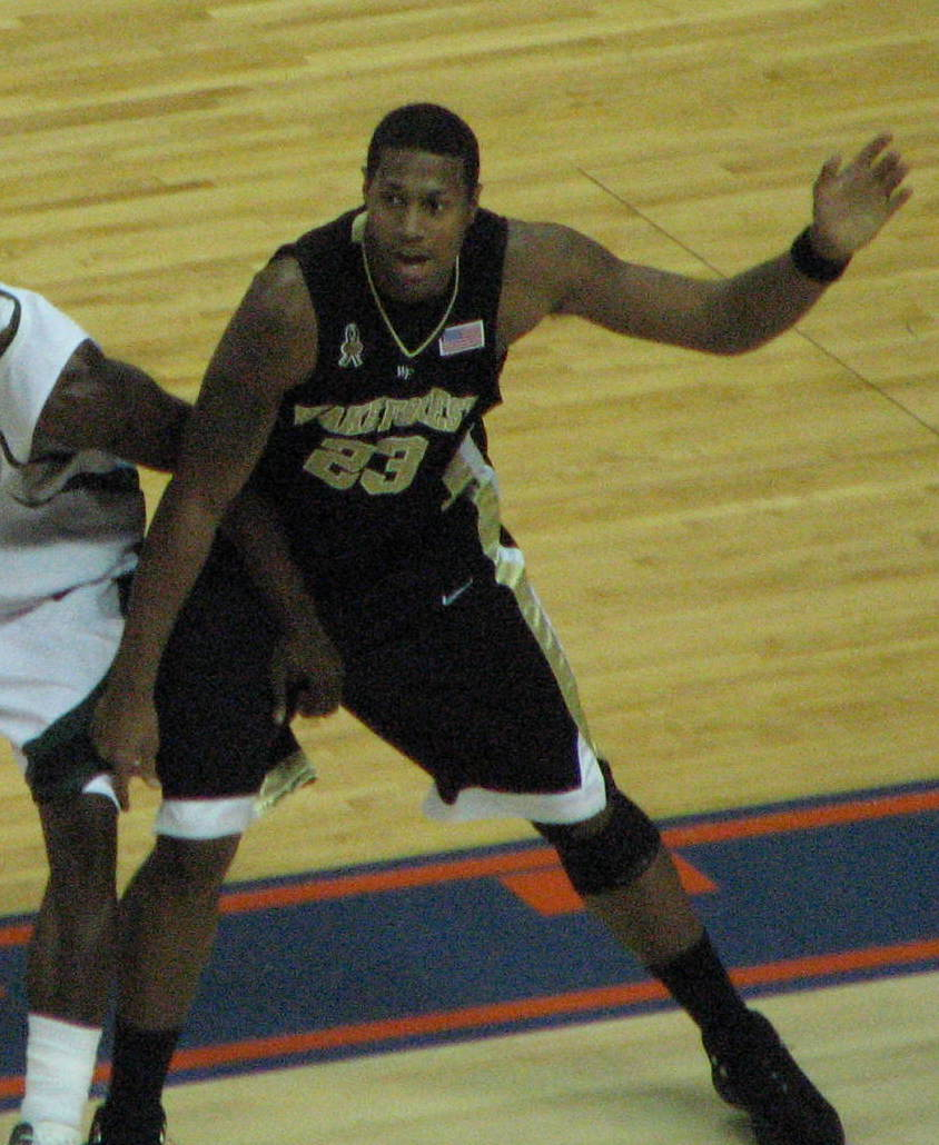 A Charlotte Defender trys to hook James Johnson